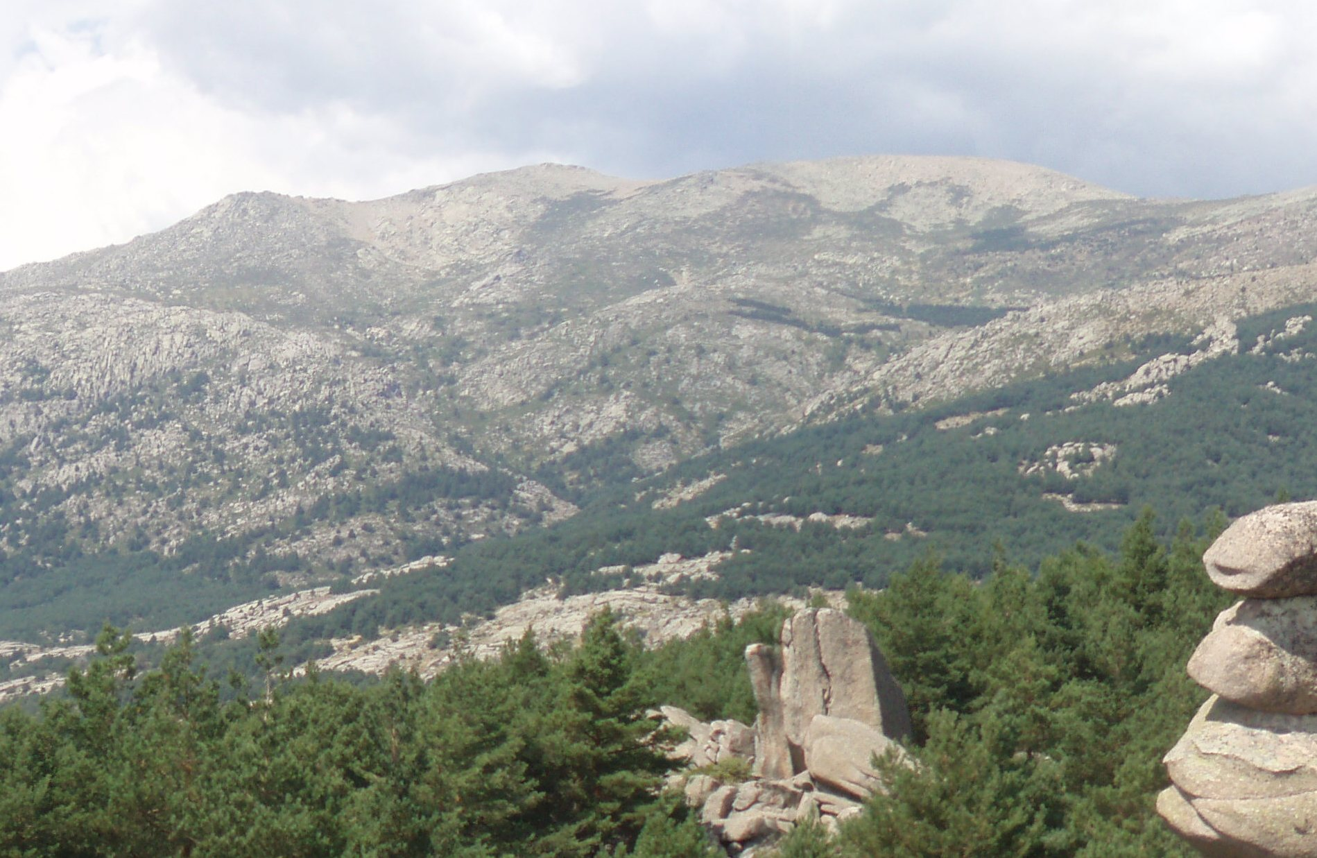 Southern face of Cabezas de Hierro (Iron Heads) peak (Sierra de Guadarrama, central Spain).